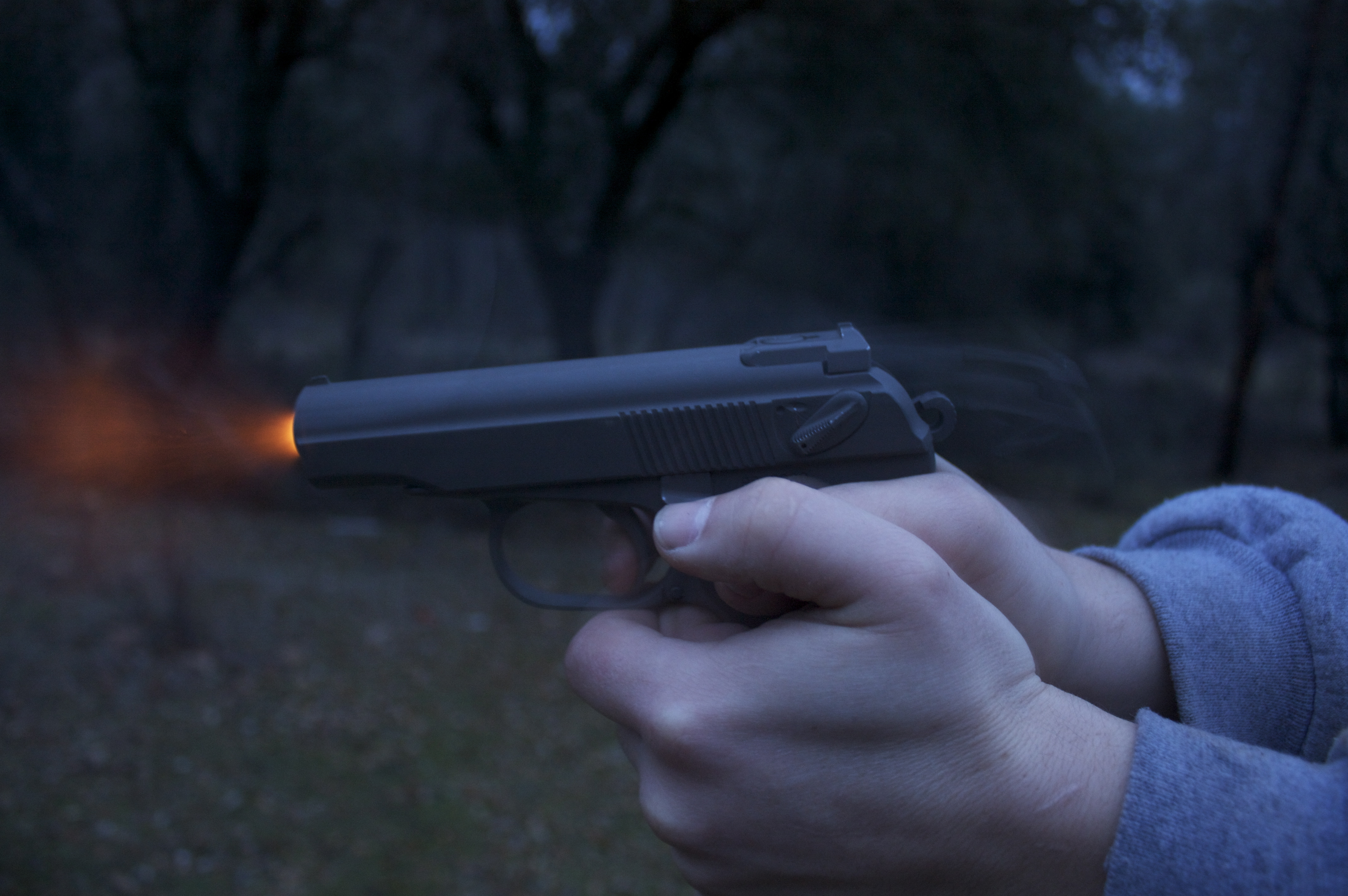 Makarov PM burning Excess powder after extraction and ejection of previous cartridge.